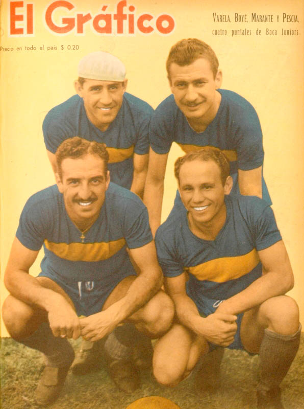 Players of Boca Juniors: (up): Severino Varela, Mario Boyé, (down): José Marante and Natalio Pescia, on the cover of El Gráfico magazine.